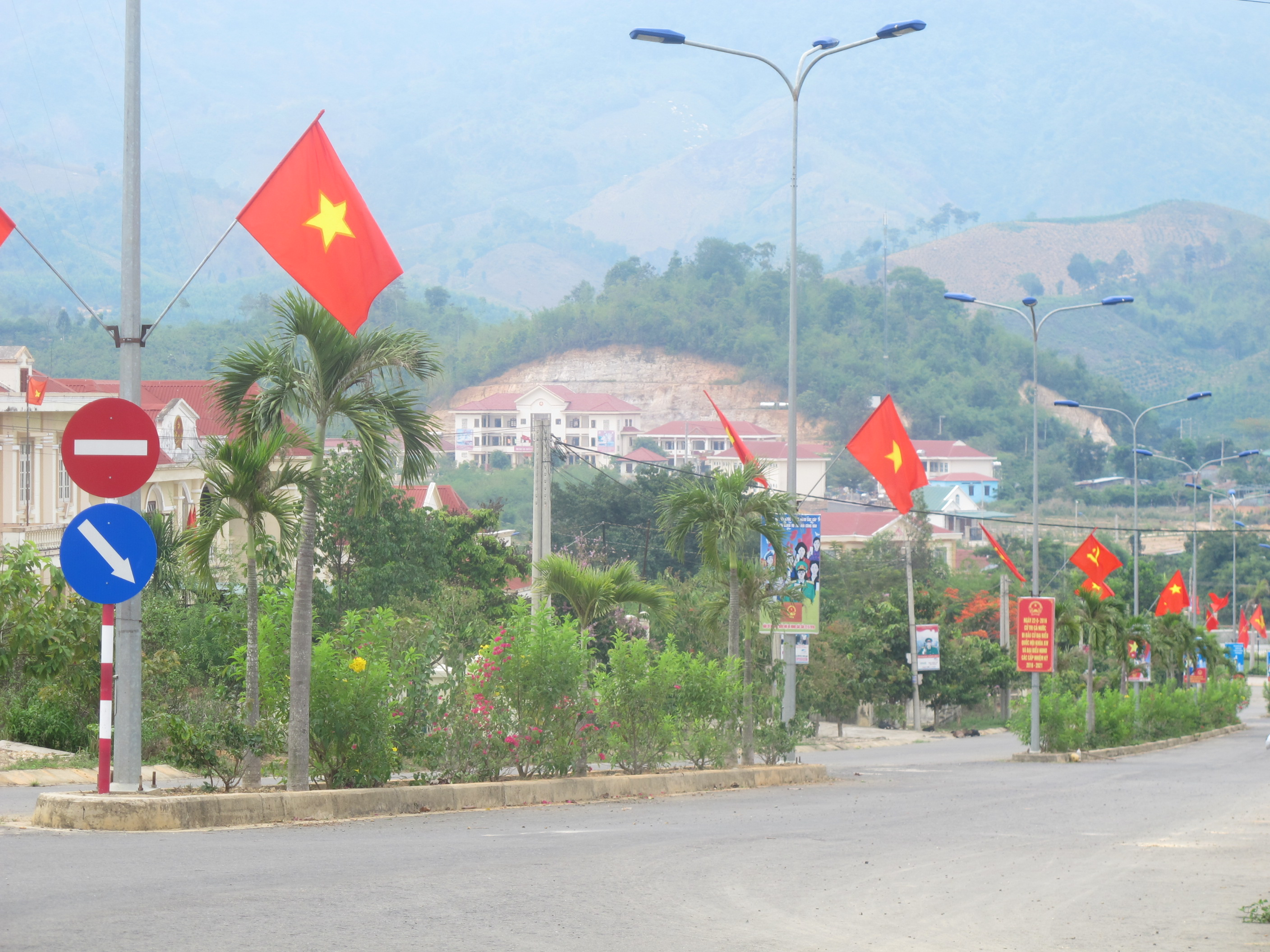 Trung tâm huyện Đam Rông